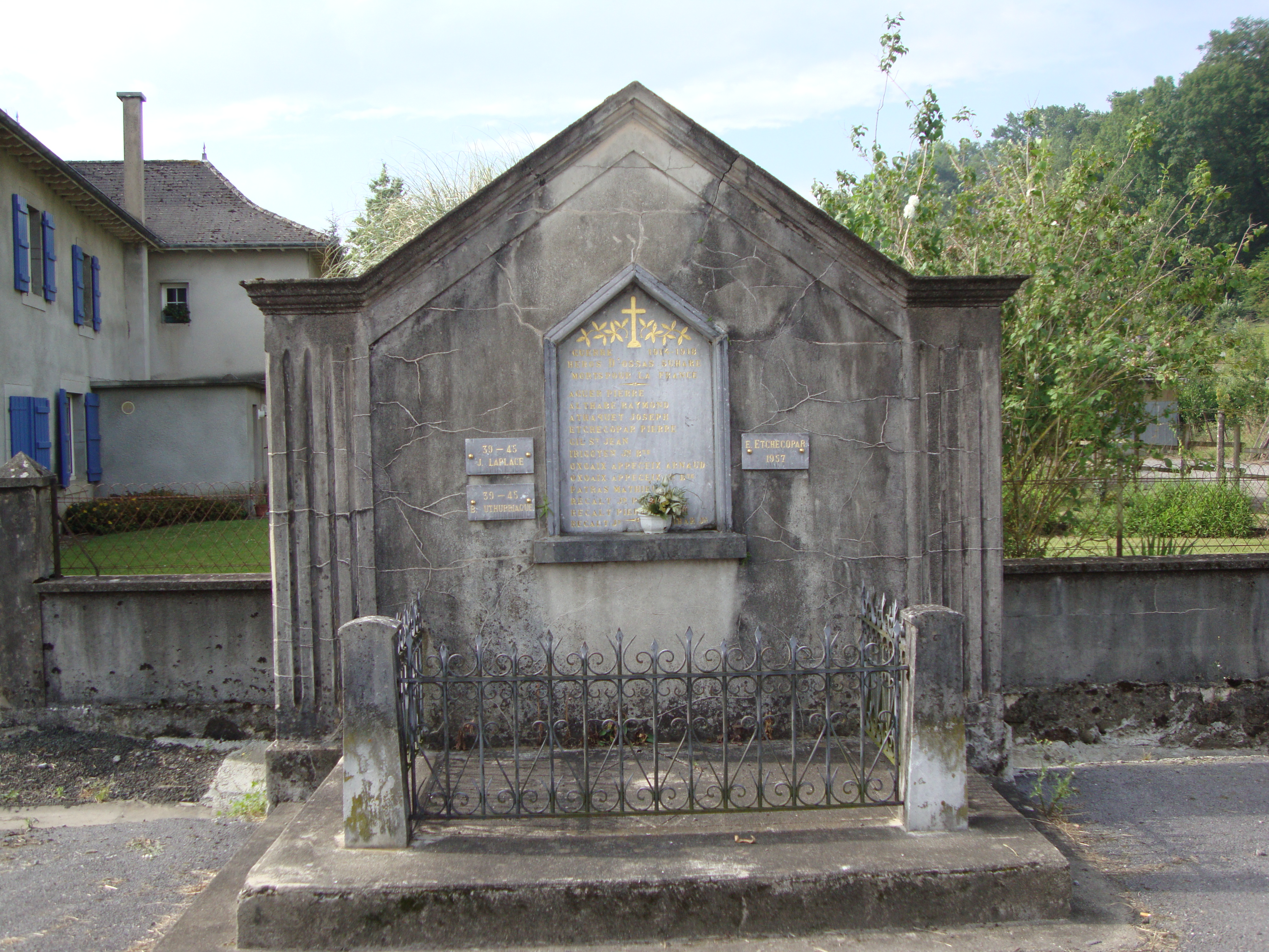 Ossas (Ossas-Suhare, Pyr-Atl, Fr) war memorial